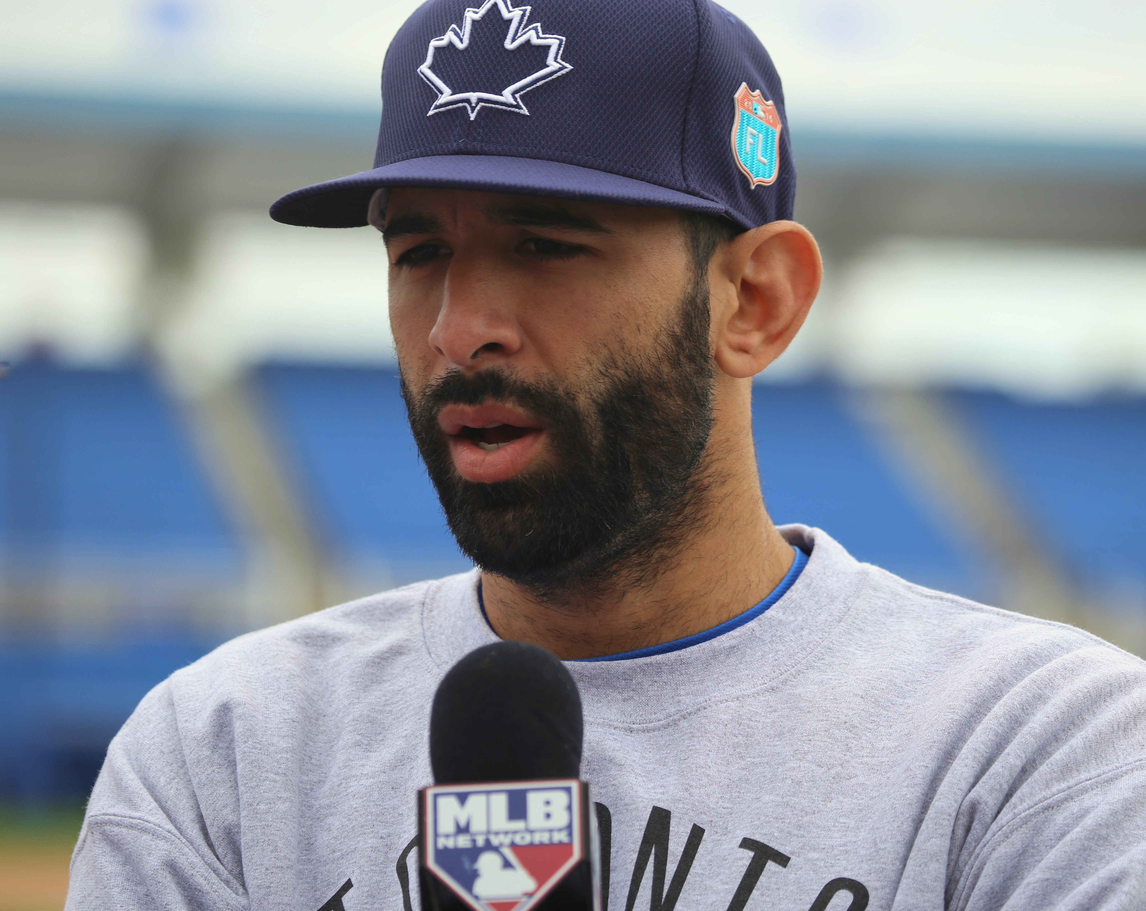 José Bautista talks to MLB Network at Blue Jays Spring Training camp.